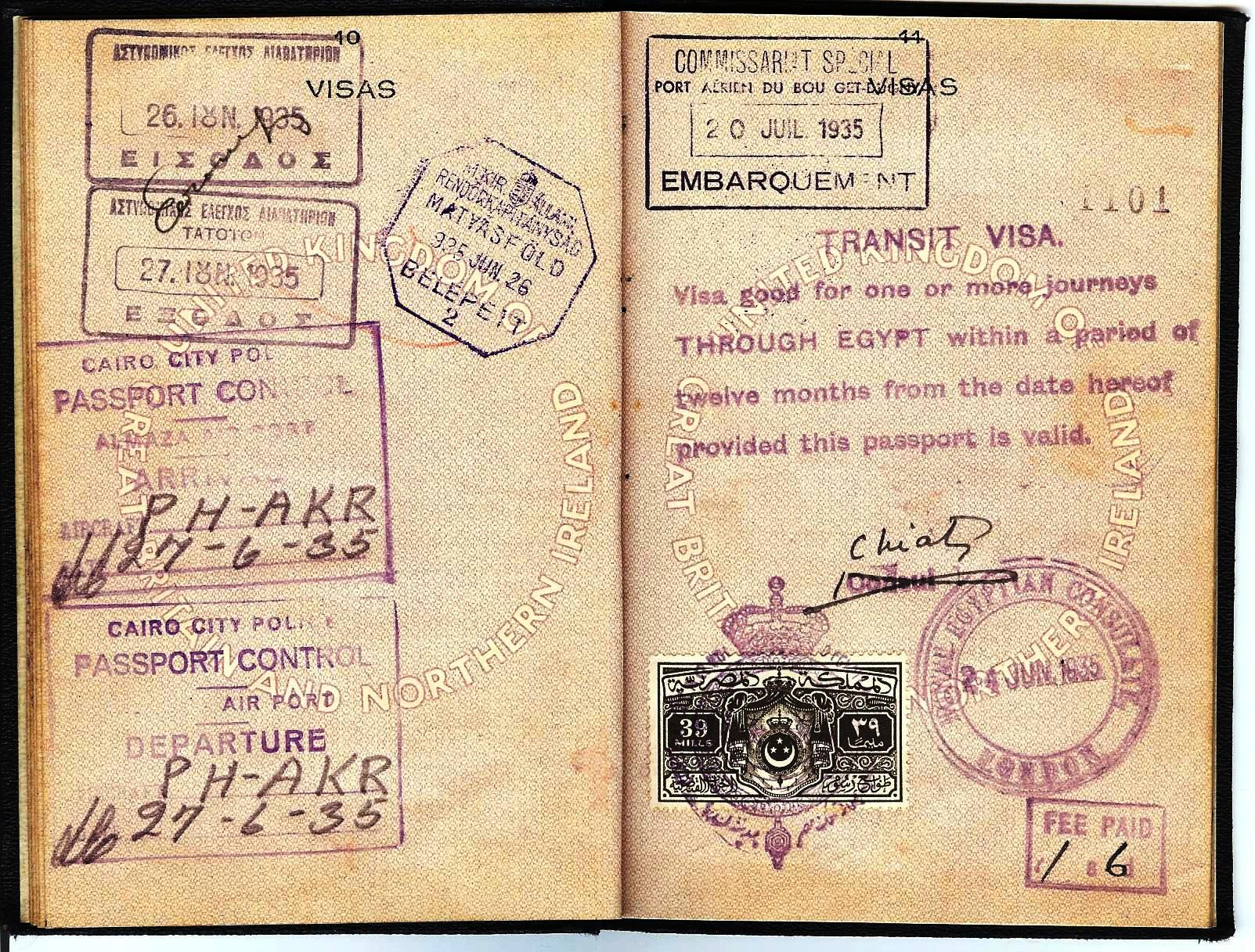 Visas of Yugoslavia & Iran in a British passport from 1935